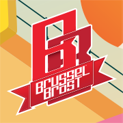 Logo Brussel Brost